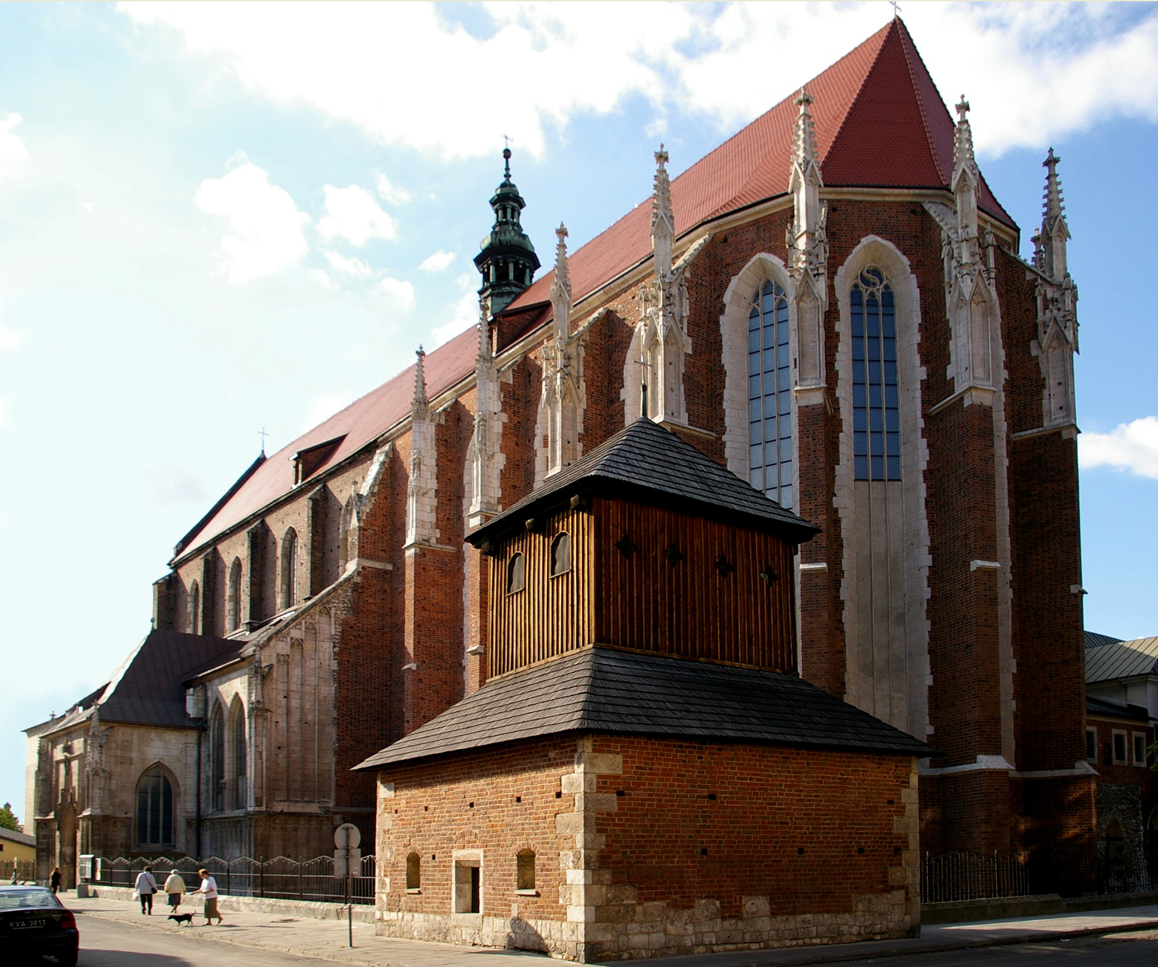 Church of St. Catherine in Kraków